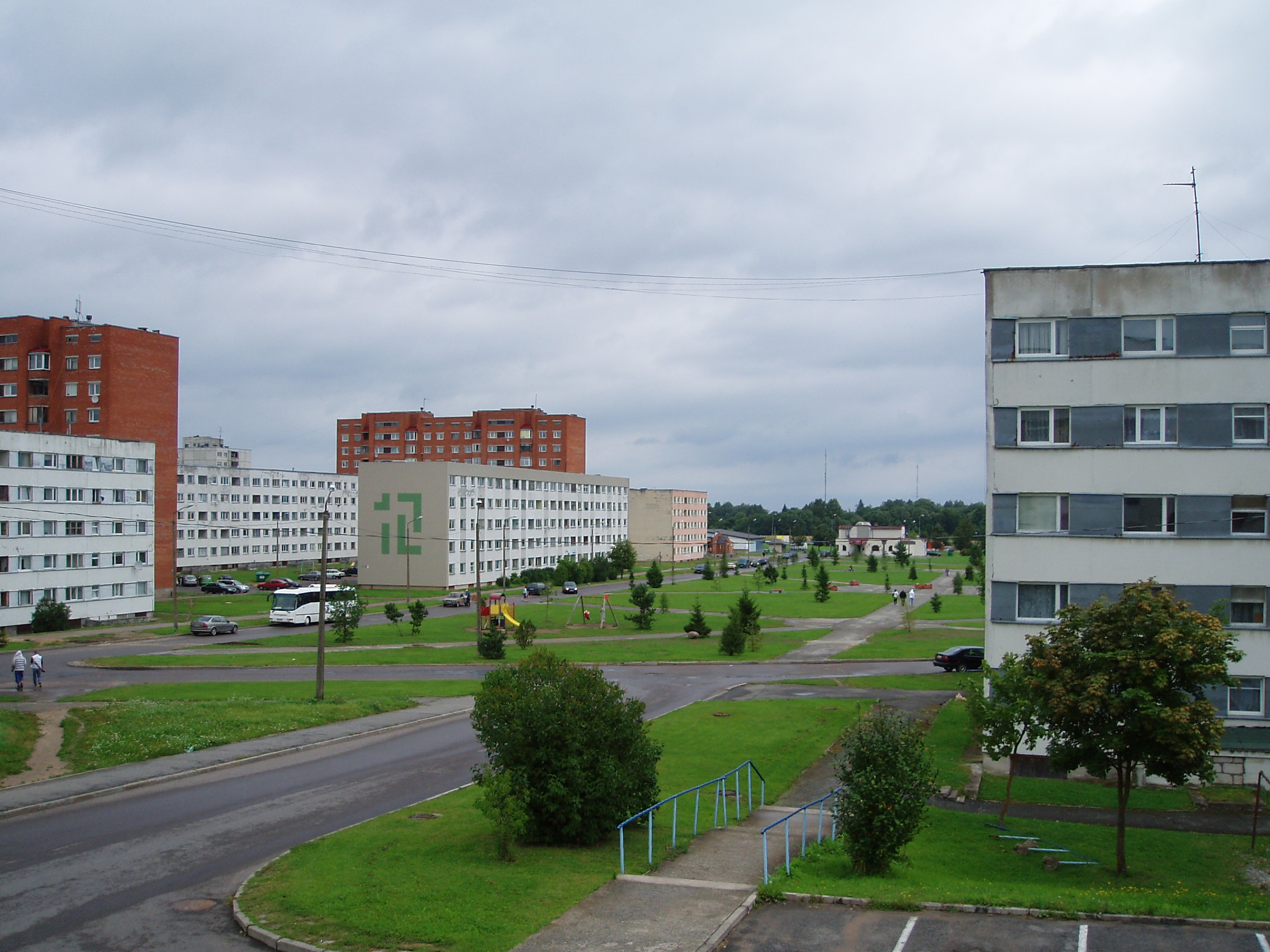 Tammiku in Kohtla-Jaerve